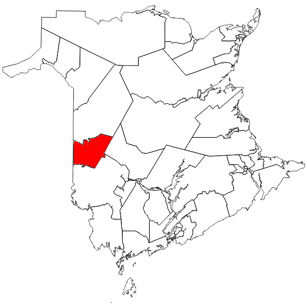 The riding of Carleton in relation to other New Brunswick electoral districts.